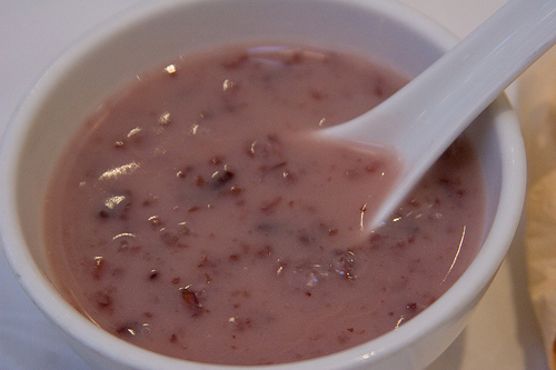 Cantonese cuisine Hybrid red bean soup